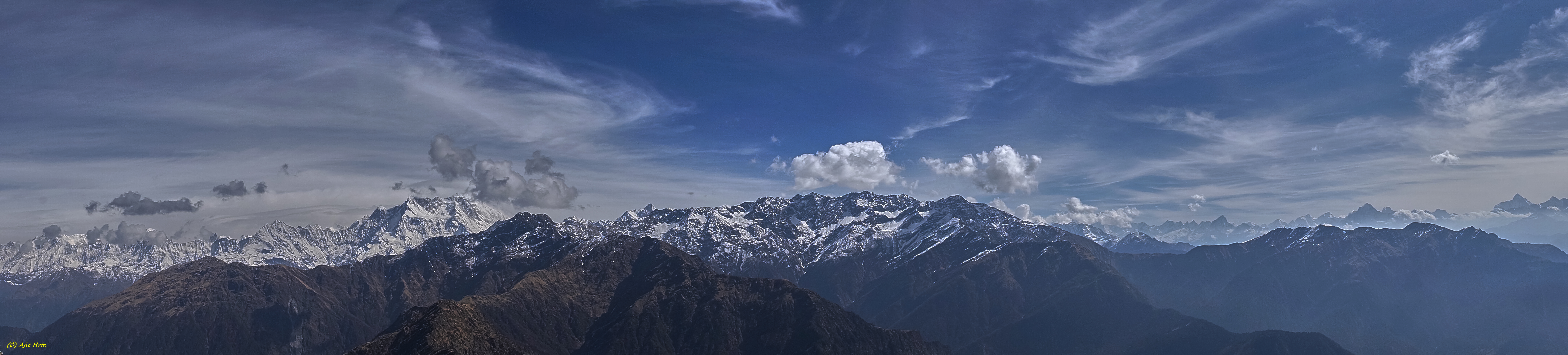 Panoromis view of the peaks fom Chandrasila Peak.